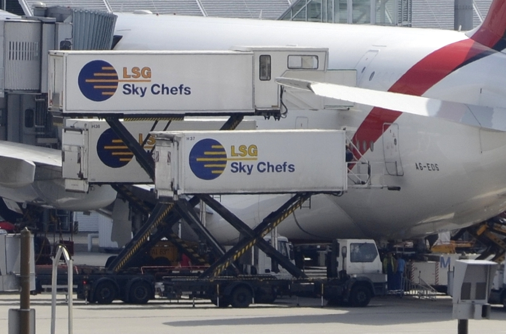 An Emirates Airbus A380 (A6-EDS) at Terminal 1 (Munich Airport), May 2012.